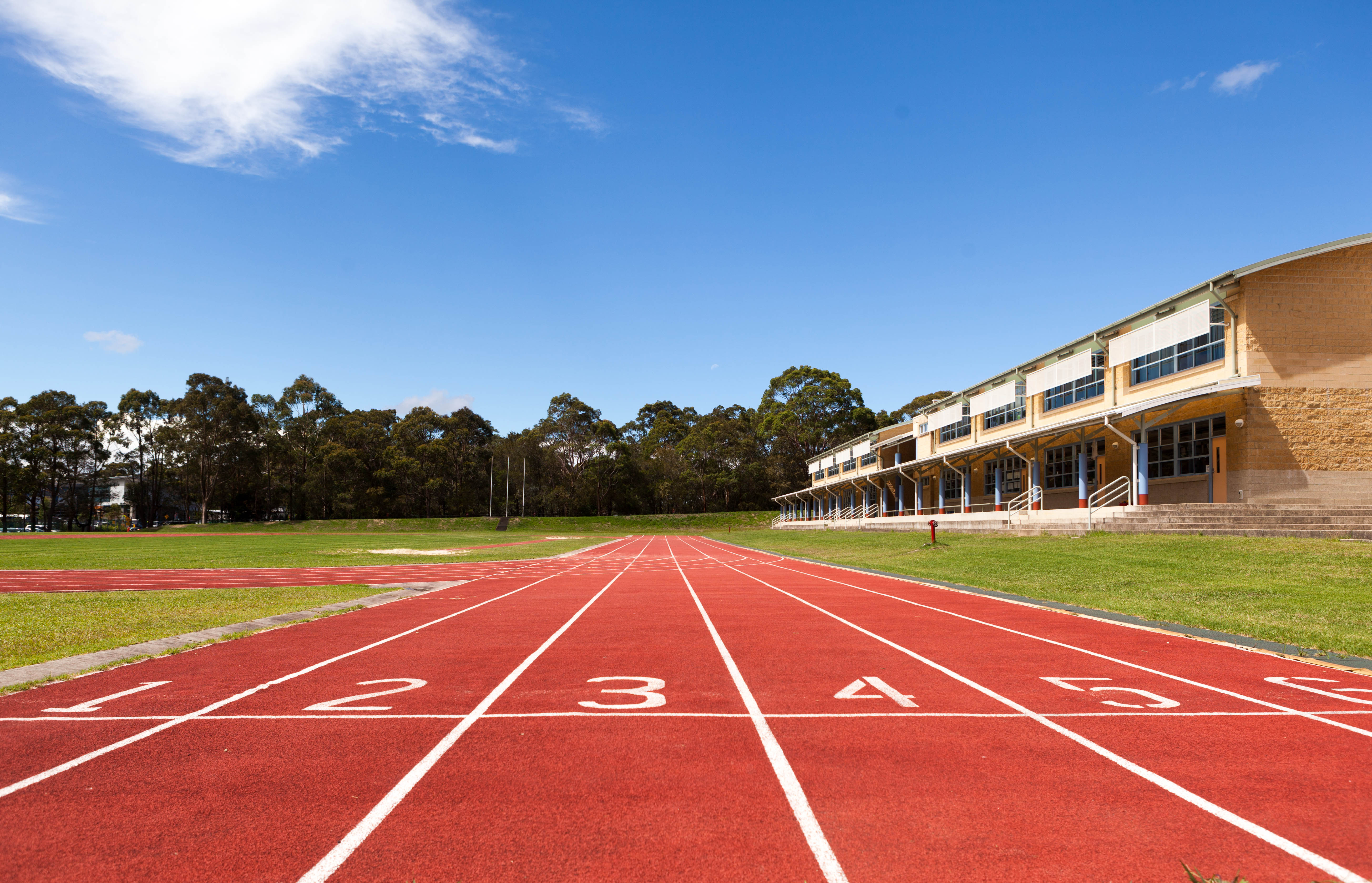 Sydney Japanese International School School grounds. Oval 2.